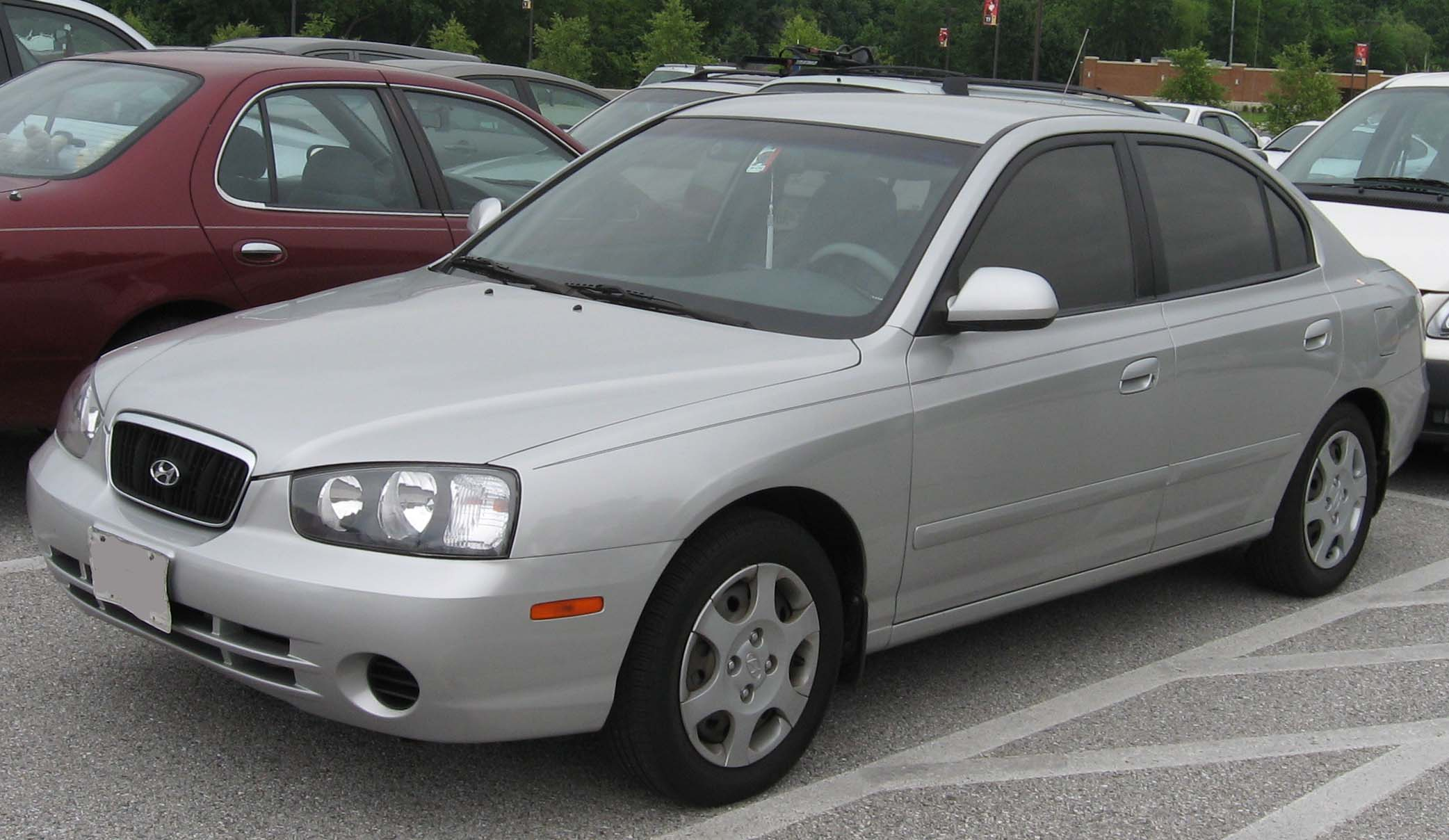 2001-2003 Hyundai Elantra photographed in College Park, Maryland, USA.